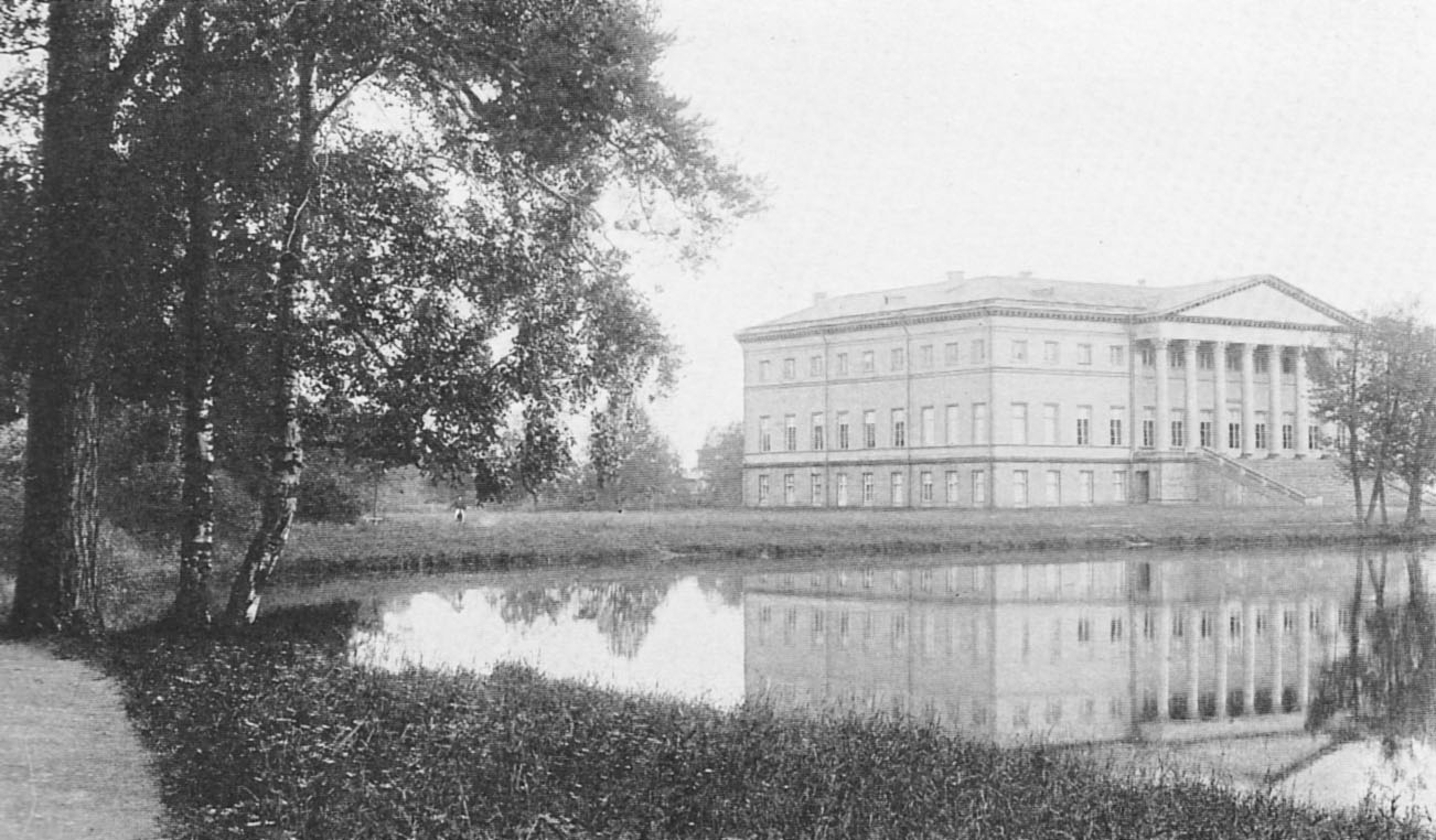 English palace in Peterhof. Architect Giacomo Quarenghi. Foto 1900.